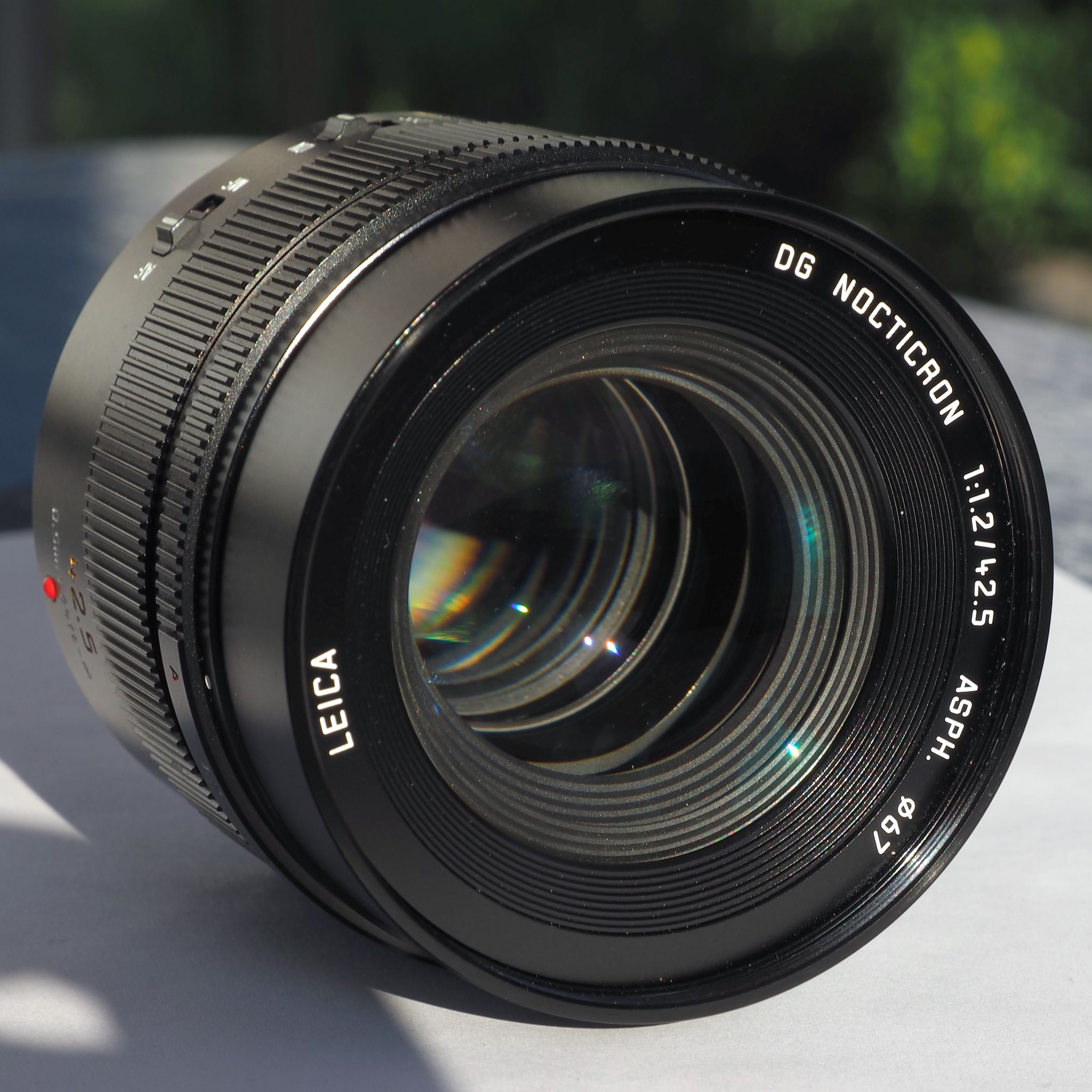 High-speed fixed focal length lens Leica DG Nocticron 1:1.2/42.5 Aspheric for Micro Four Thirds system cameras.